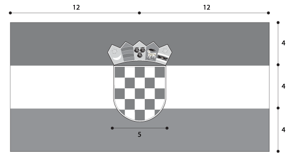 Flag_of_Croatia (construction)